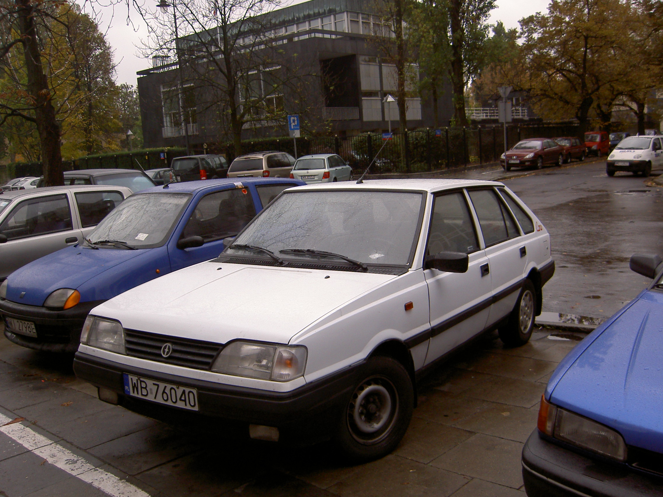 FSO Polonez Caro MR'93 in Warsaw Picture taken by me in october 2006